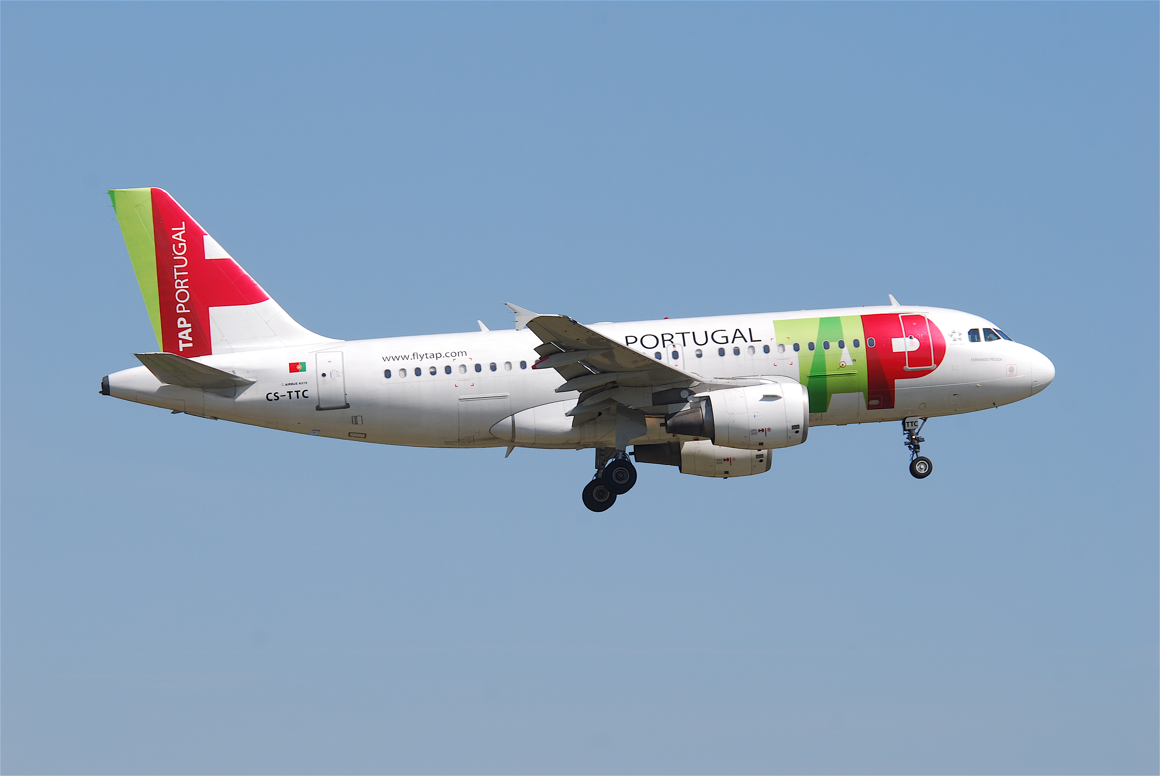 TAP Airbus A319; CS-TTC@ZRH;07.04.2010/570eb